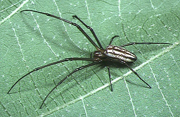 female Leucauge magnifica from Okinawa.